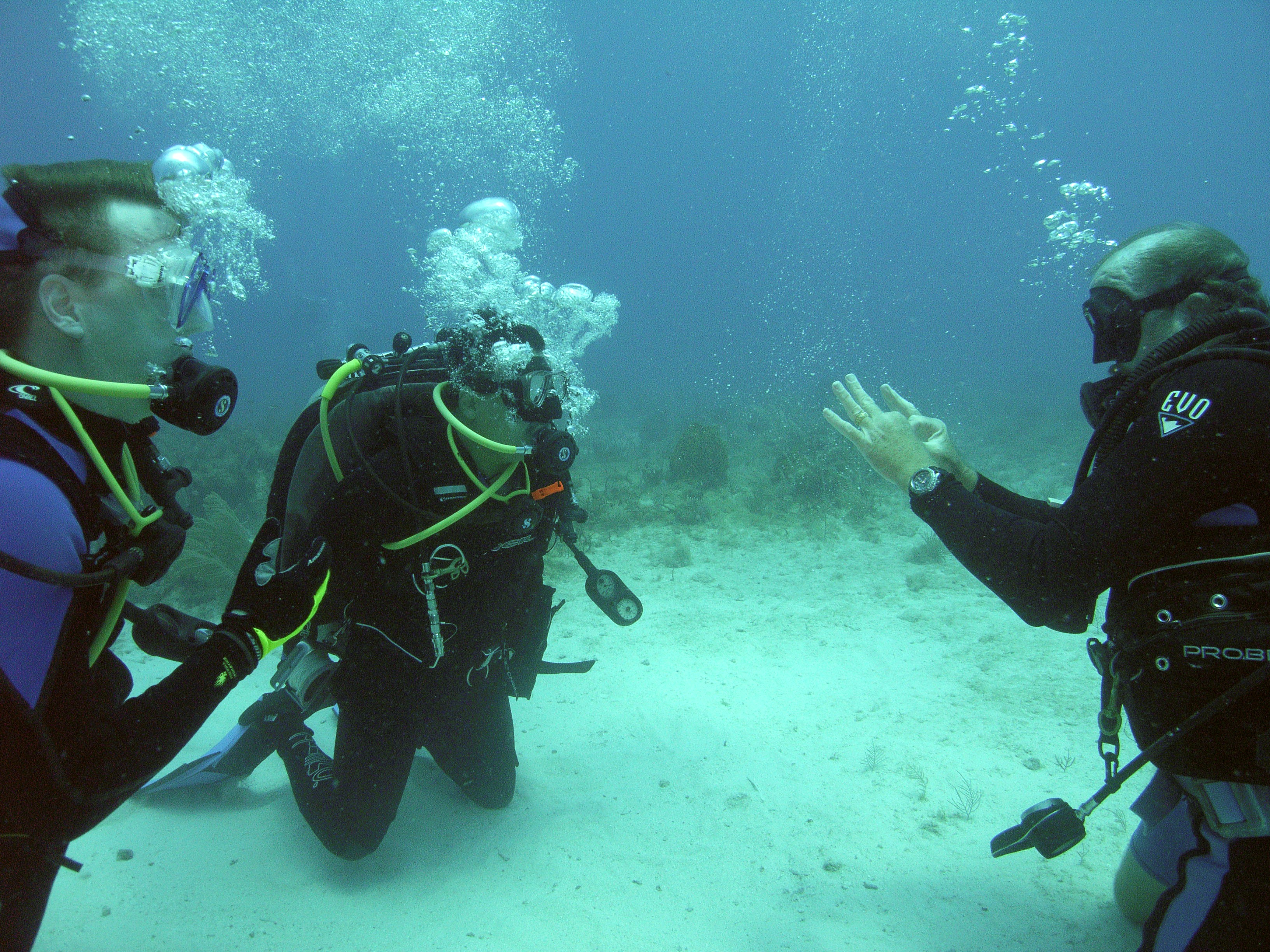 During training for the NASA-NOAA NEEMO 12 mission in May 2007, NEEMO trainer Mark Hulsbeck gives the "all okay" signal underwater to NASA flight surgeon/aquanaut Josef F. Schmid (left) and NASA astronaut/aquanaut José M. Hernández. NASA photo JSC2007-E-21813 in public domain.